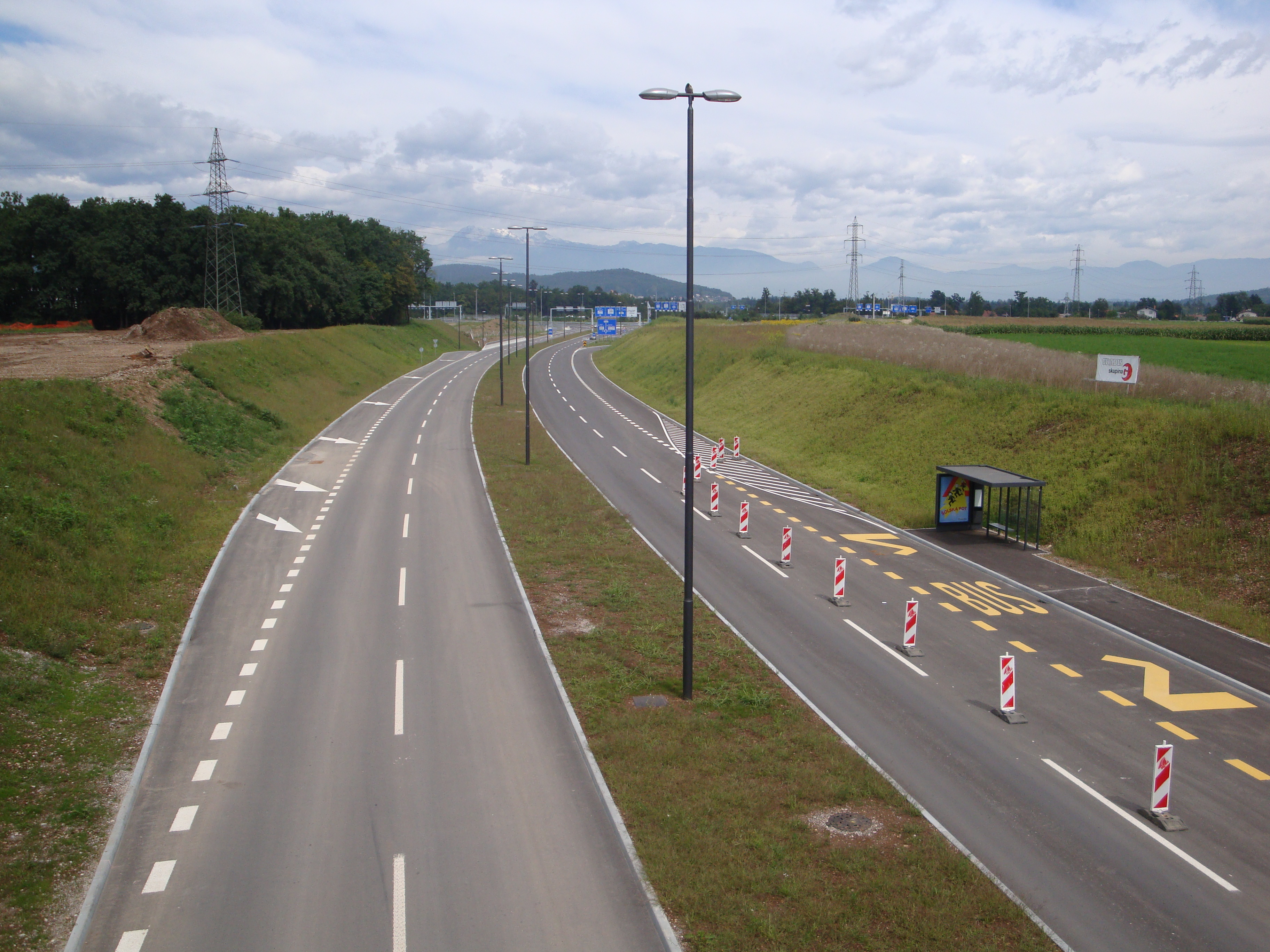 Štajerska cesta, Ljubljana, Slovenia